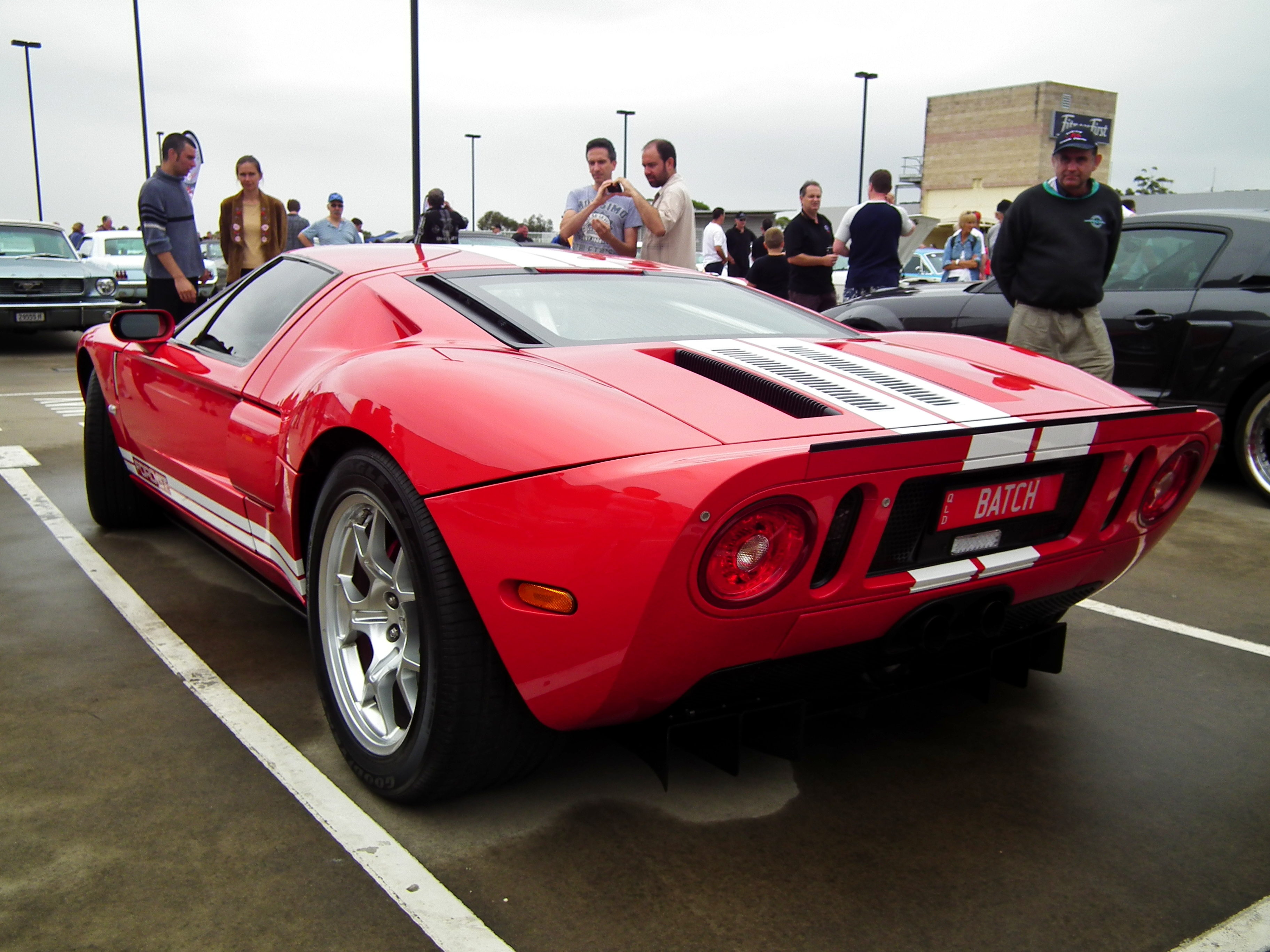 2005 Ford GT coupe. Taken at the 2013 New South Wales All American Day, held at Castle Towers Shopping Centre, Castle Hill, Sydney.